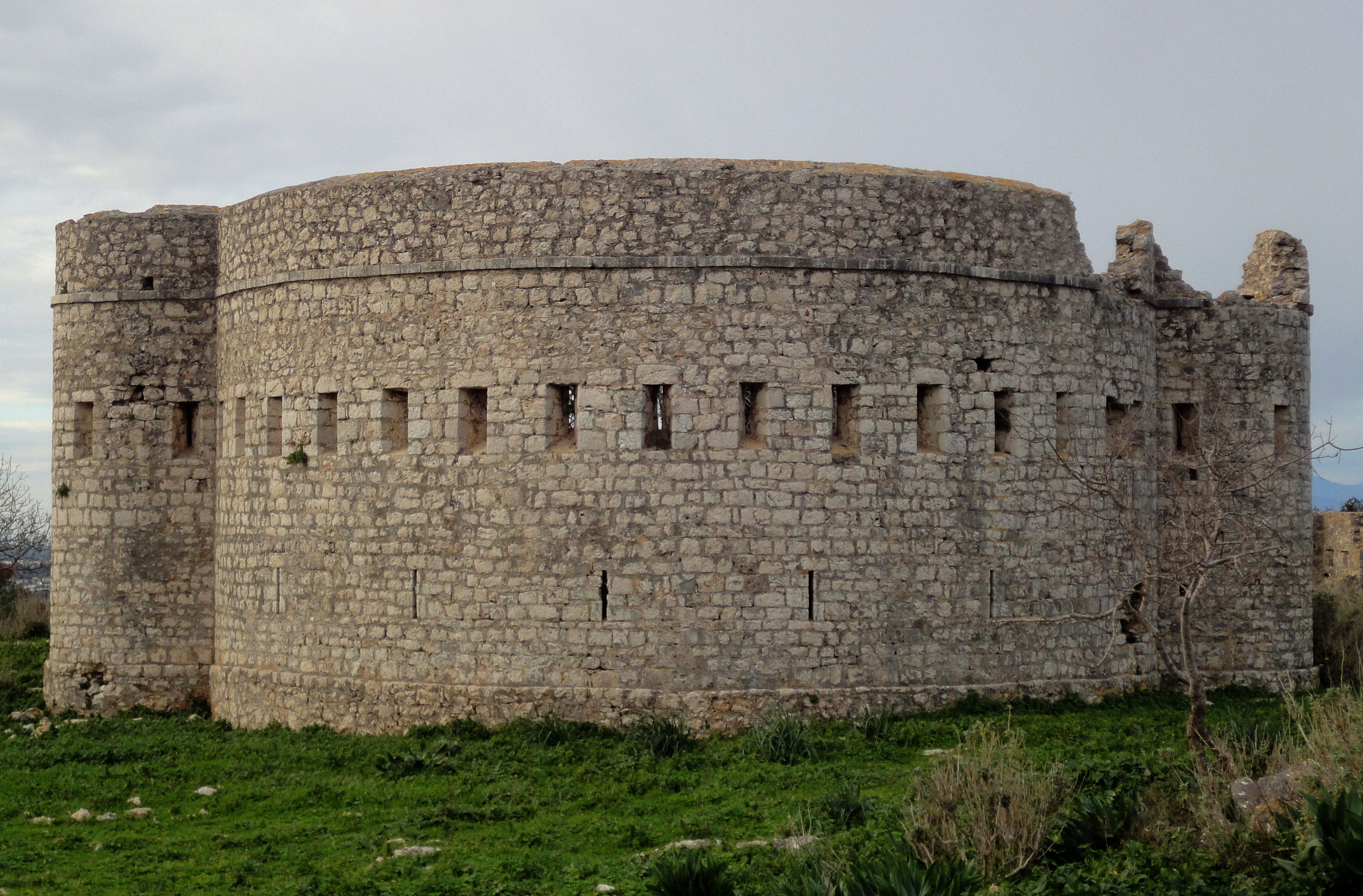 The fort of Laskara, Preveza. View from the south.